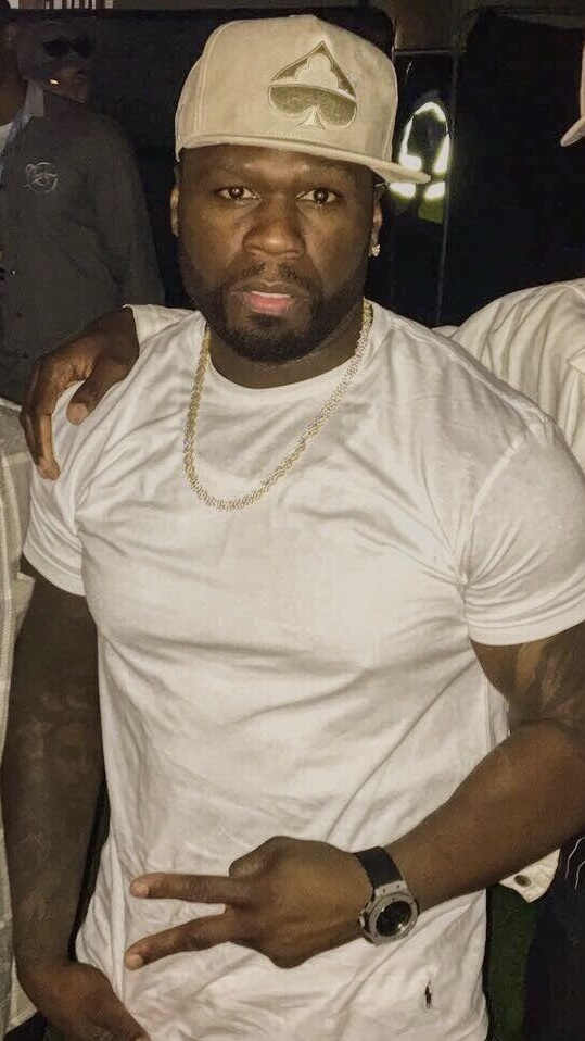 Dont Be Mike With 50 Cent At Mutiny Festival 2017